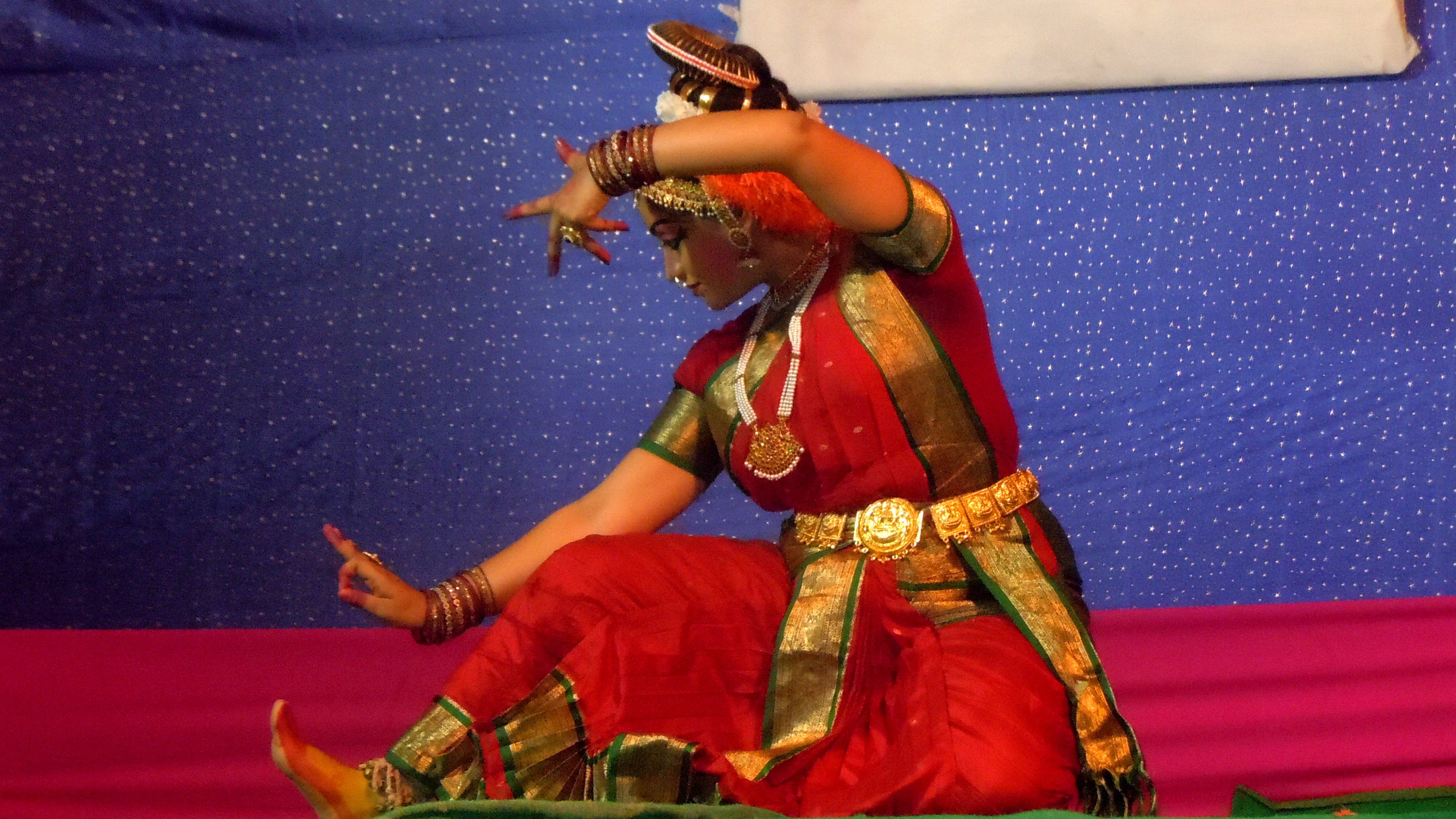 Sahiti Ravali, a Kuchipudi dancer from Visakhapatnam performing on stage at Bhadrachalam in 2014